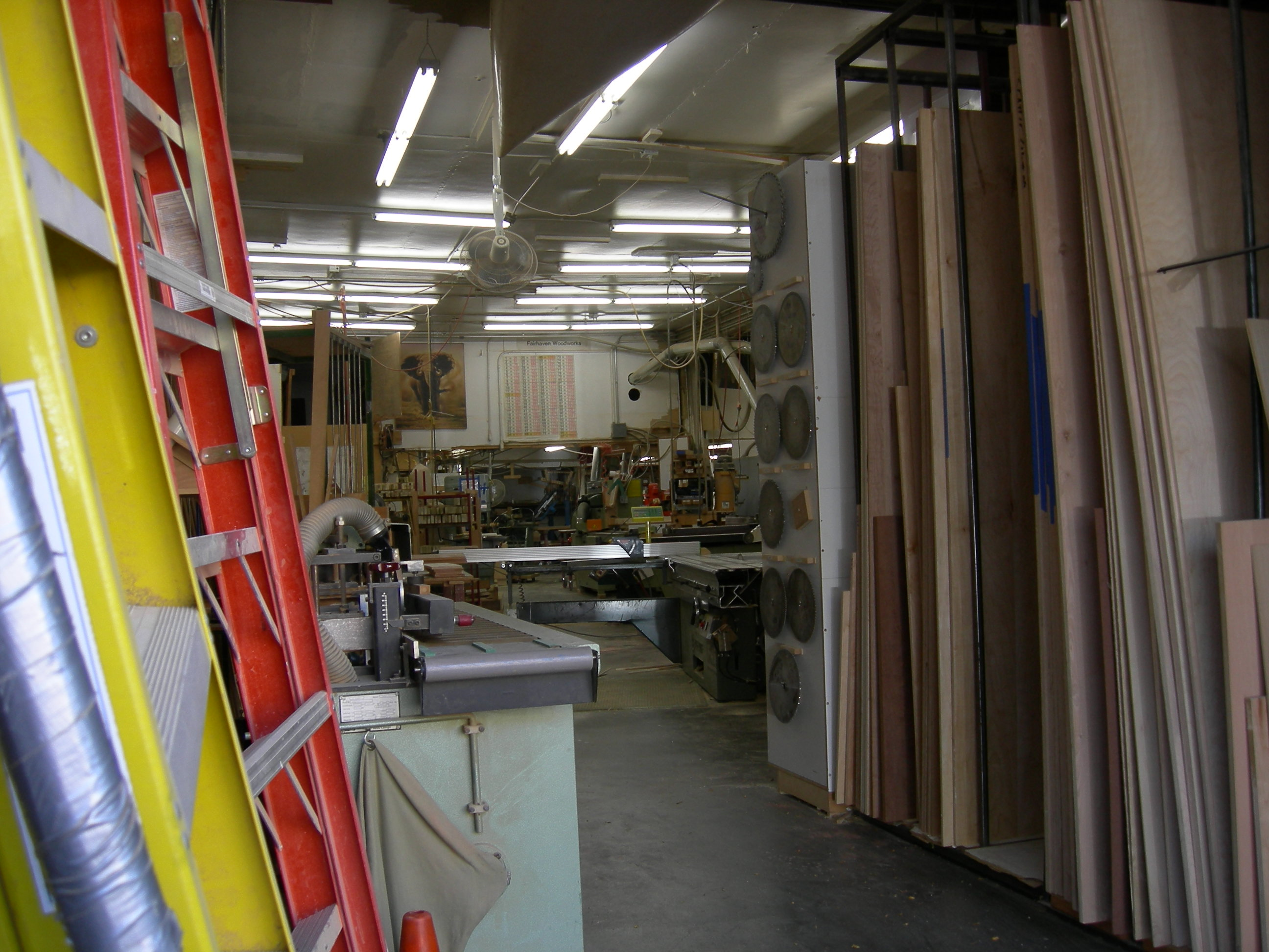 Seattle Custom Cabinets shop on Ballard Avenue, Ballard, Seattle, Washington.